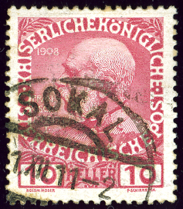 Jubilee 10 heller stamp cancelled in 1911 at SOKAL (Galicia, Ukraine)